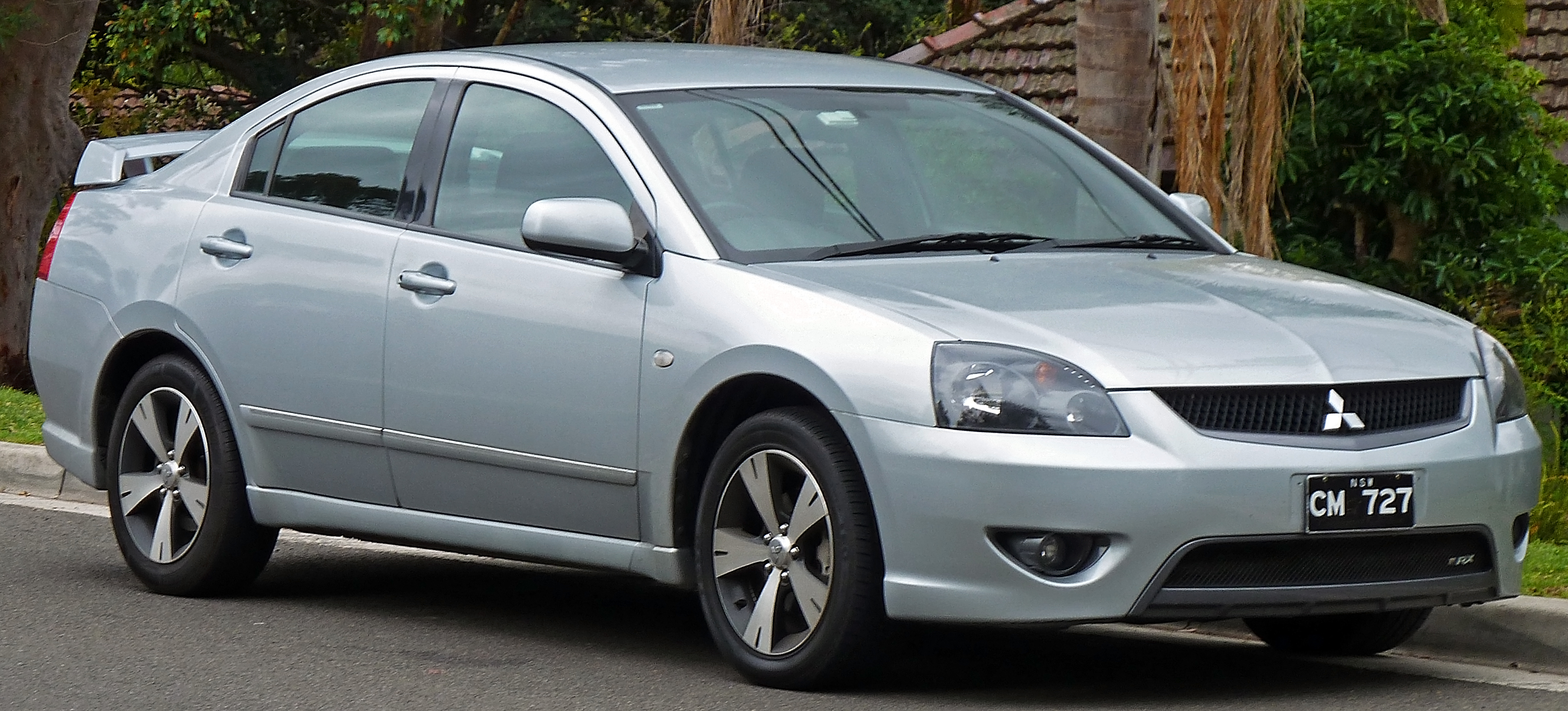 2007–2008 Mitsubishi 380 (DB III) VR-X sedan. Photographed in Gymea Bay, New South Wales, Australia.